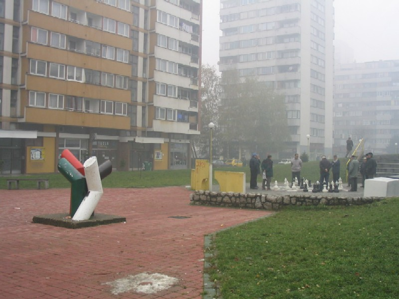 Retired tuzlaci playing chess, a favorite pastime, in the western residential area of Slatina.